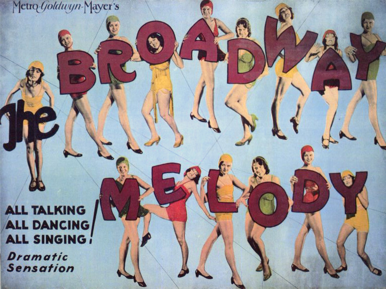 Low-resolution image of poster for the American musical film The Broadway Melody (1929)